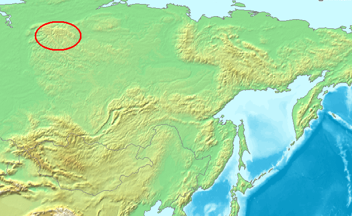 Location Putoran Mountains.PNG